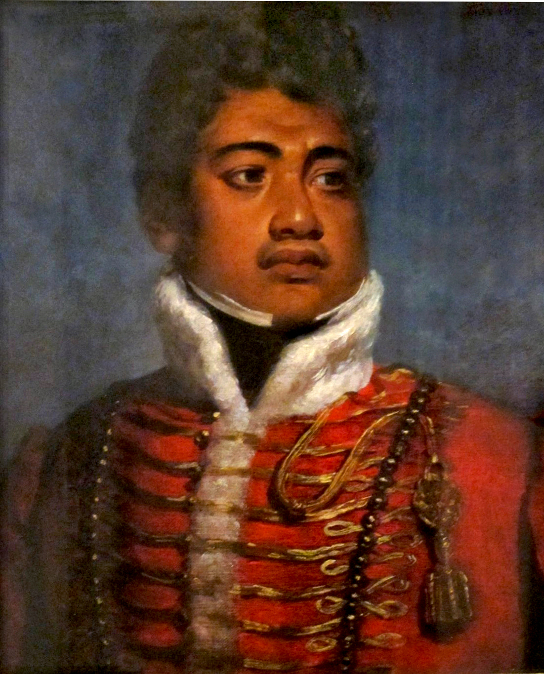 Portrait of King Kamehameha II of Hawaii attributed to John Hayter, 1824, Iolani Palace